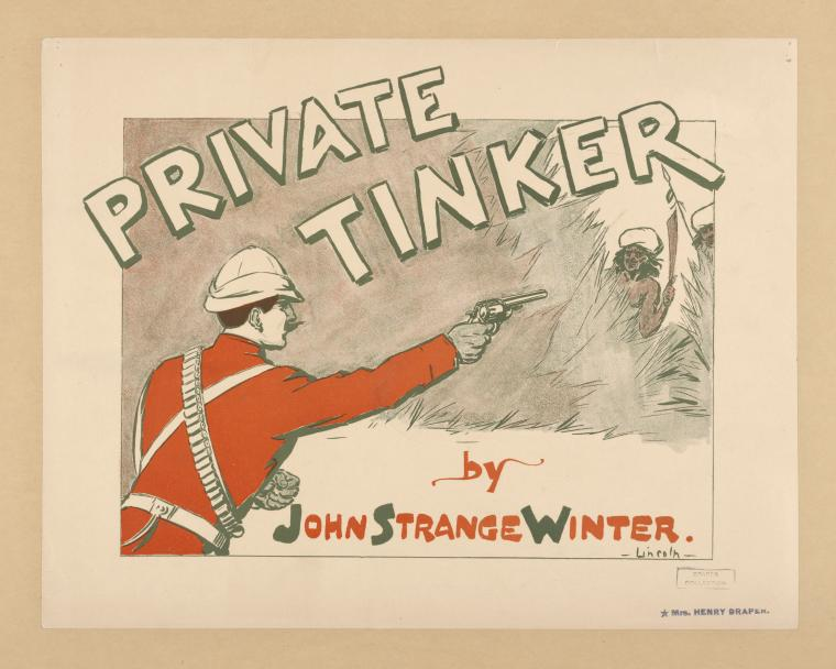 Promotional poster for Private Tinker, a novel by John Strange Winter (the pen name of Henrietta Eliza Vaughan Stannard)